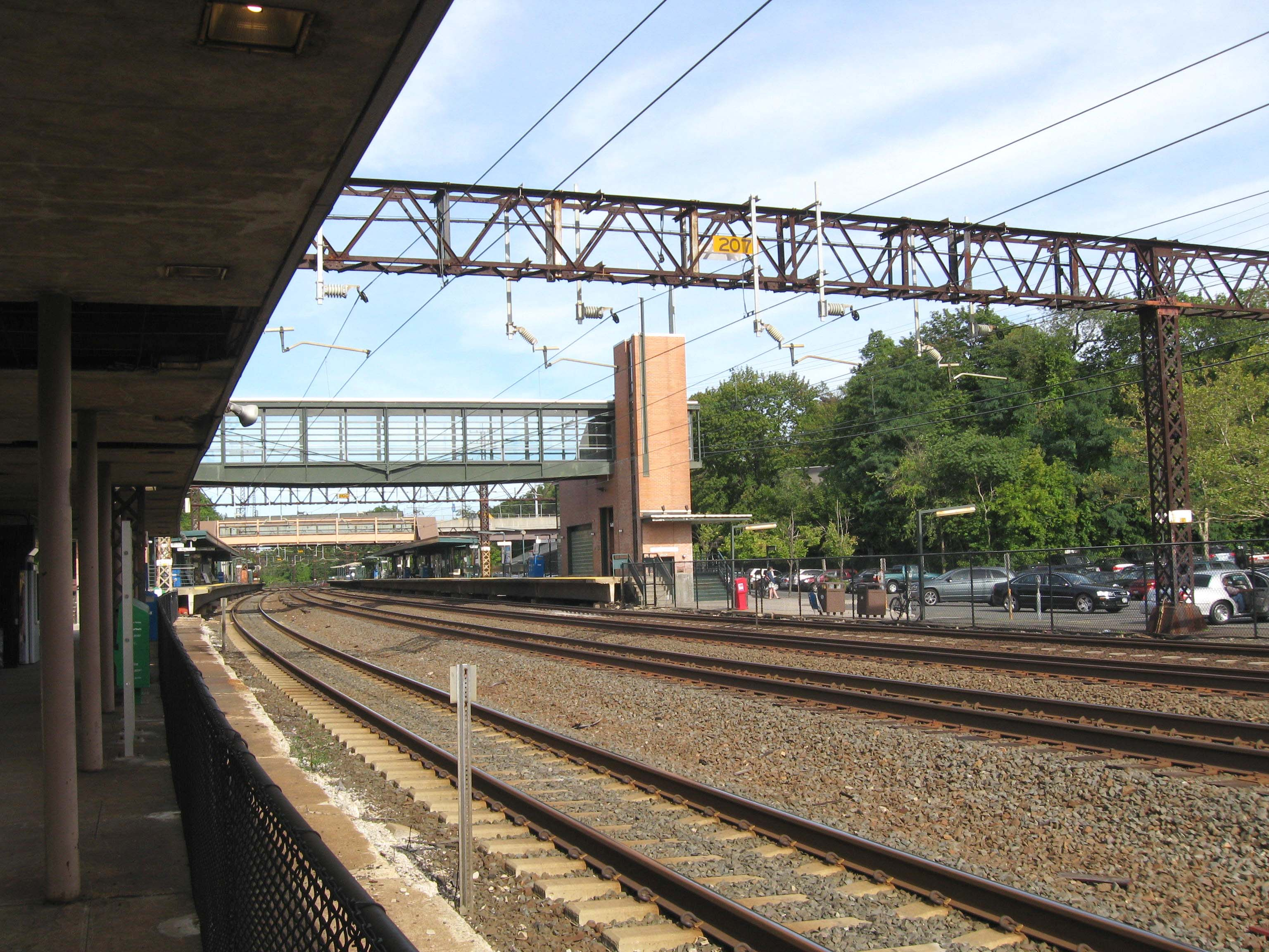 Looking east from southbound platform at northbound platform of Rye (Metro-North station) on a sunny afternoon.